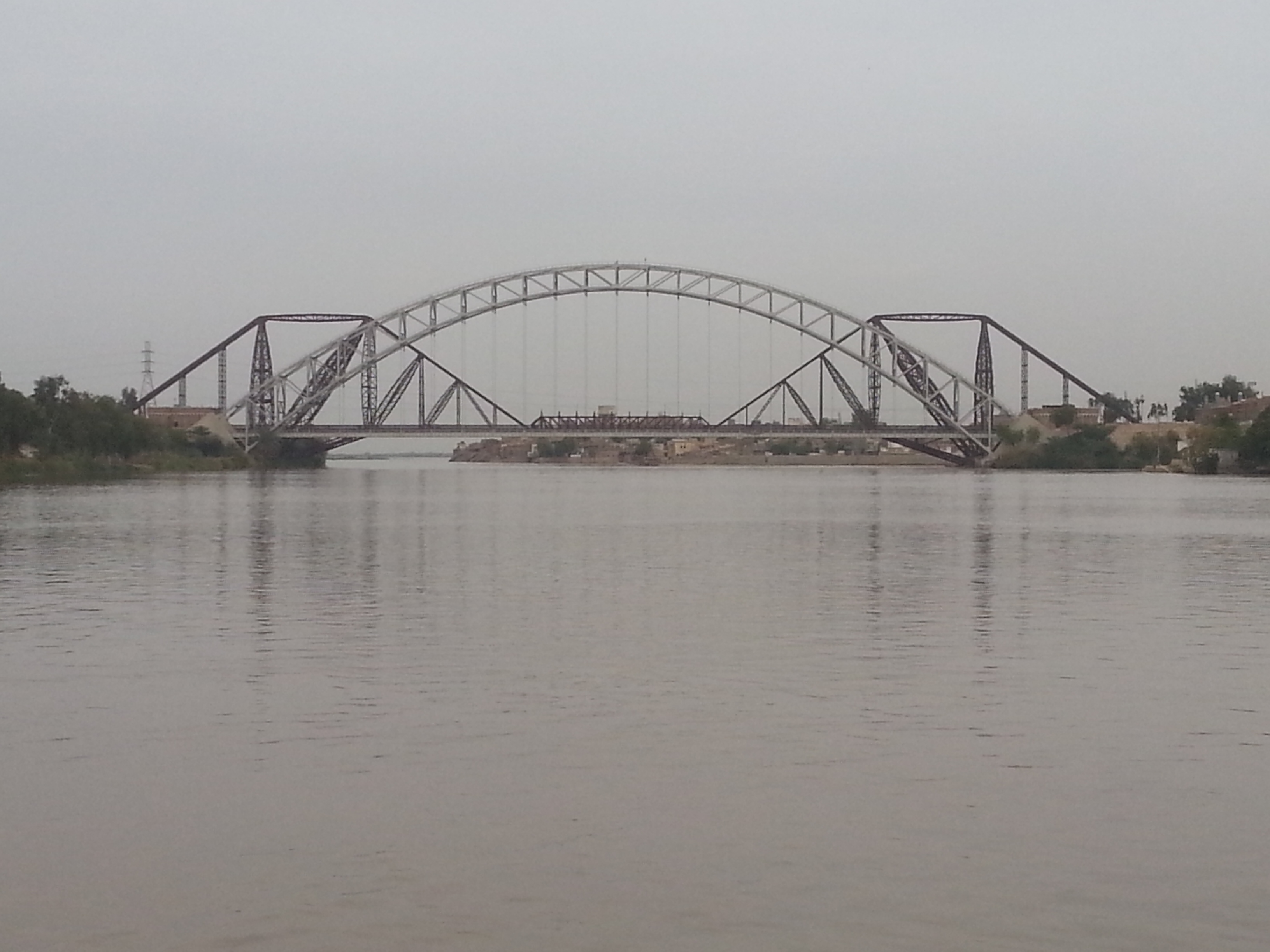 Lansdowne Bridge Rohri, Sindh